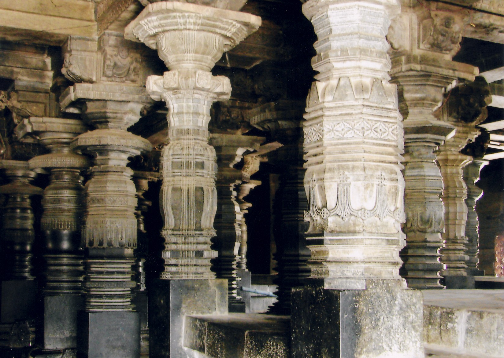 Decorated Pillars in Chennakeshava Temple. Located in Belur (also spelt Chennakesava), Karnataka, India.